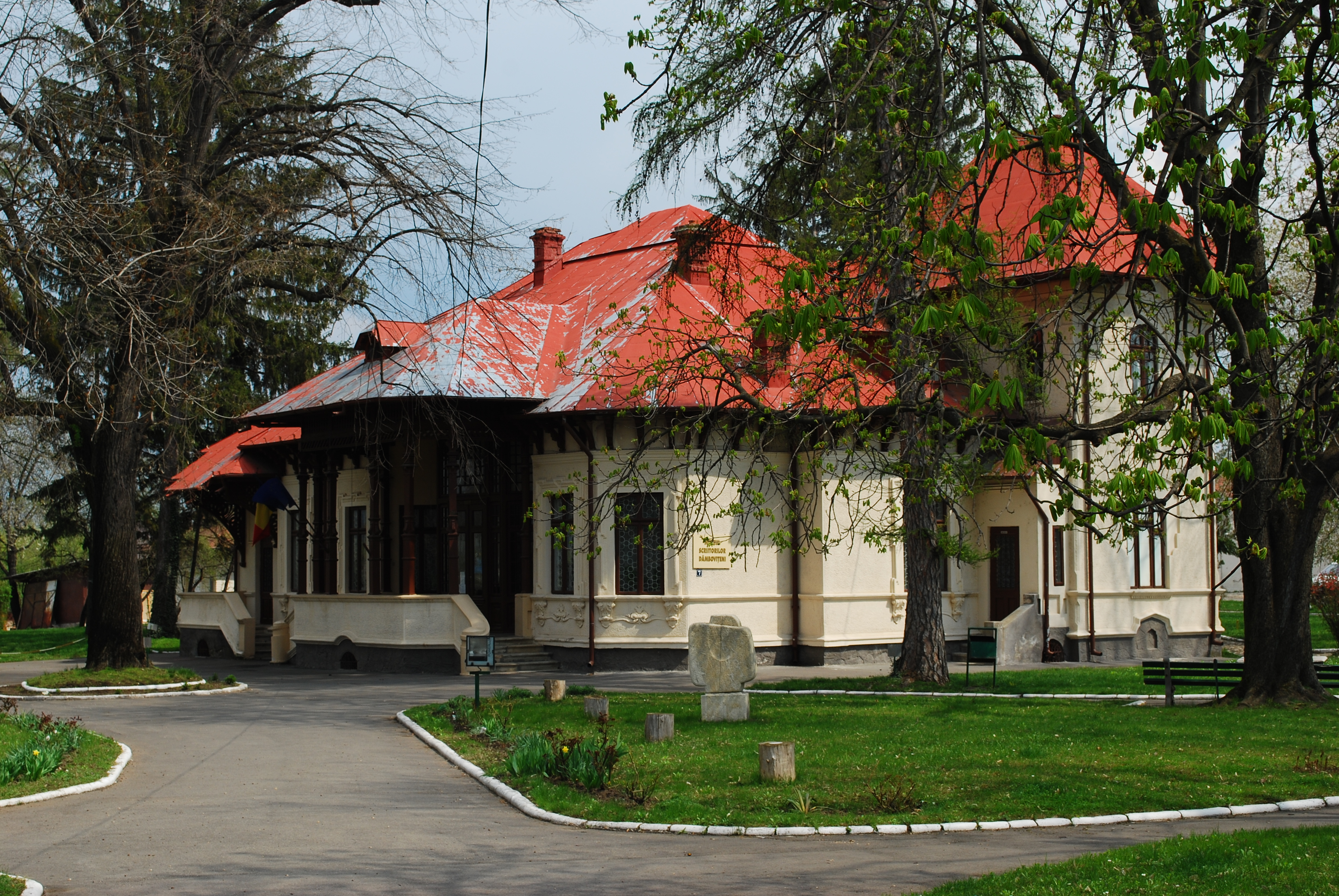 The museum of writers from Dâmboviţa, in Târgovişte, Romania